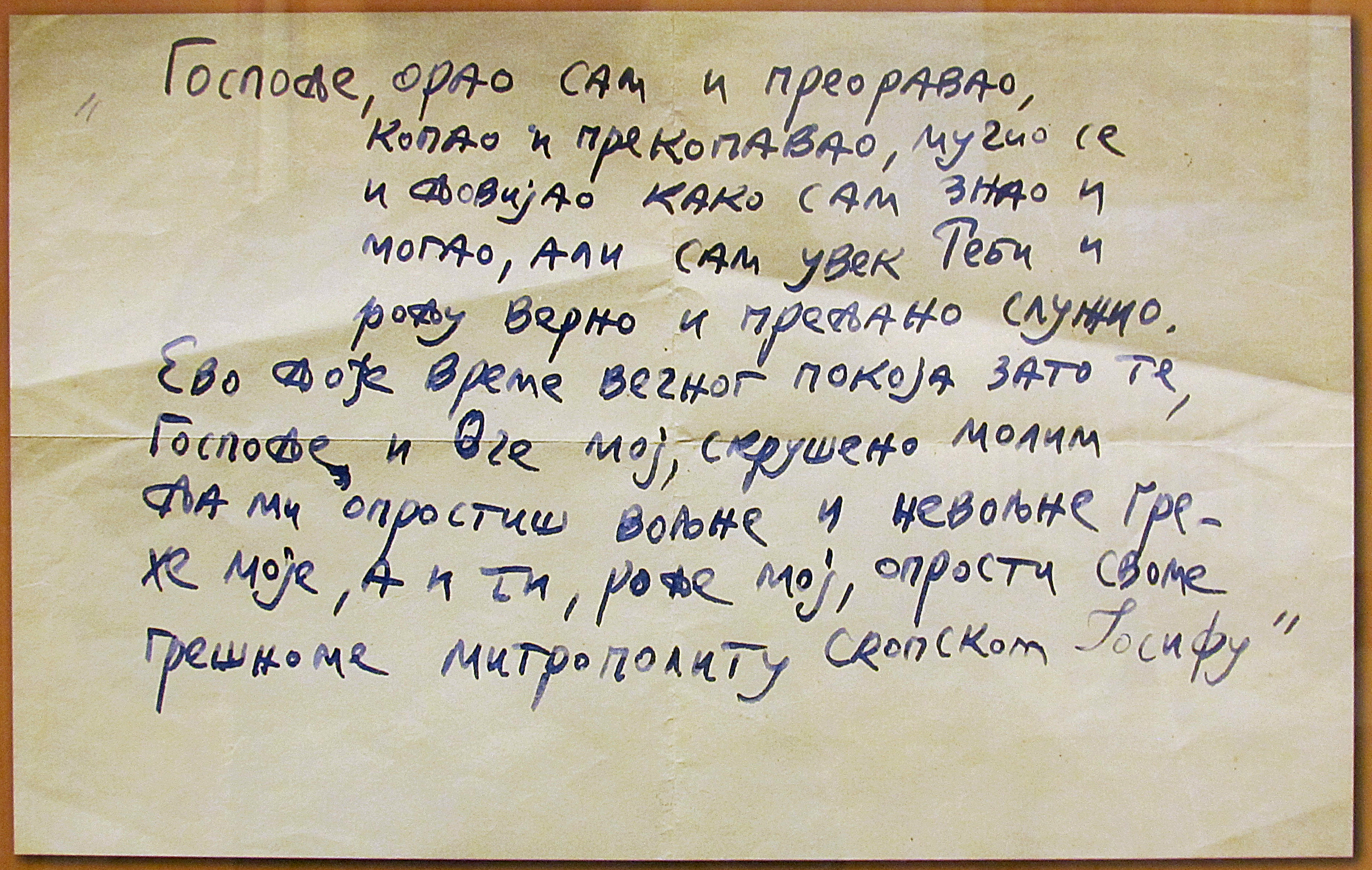 Epitaph of Metropolitan bishop Josif